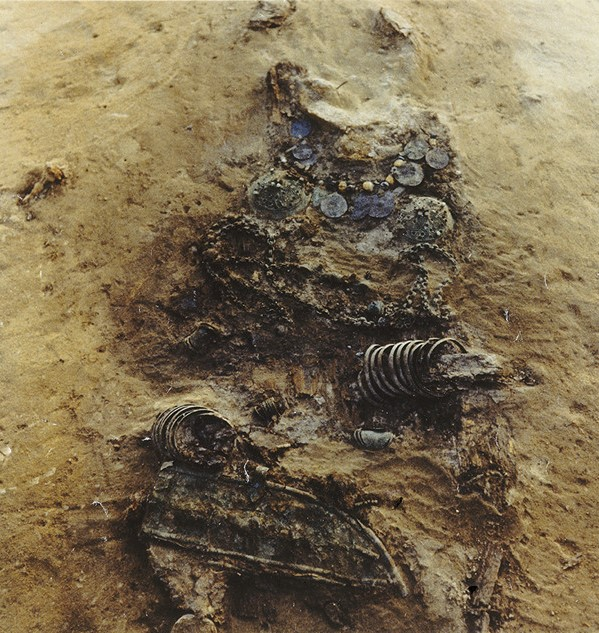 Grave No. 56 of the Luistari burial site, Eura, Finland. Remains of the "Eura Queen", a lady who died on her 40s approximately 1020–1050 AD, found in 1969. A replica of her dress, the "Eura Costume", was introduced in 1982.